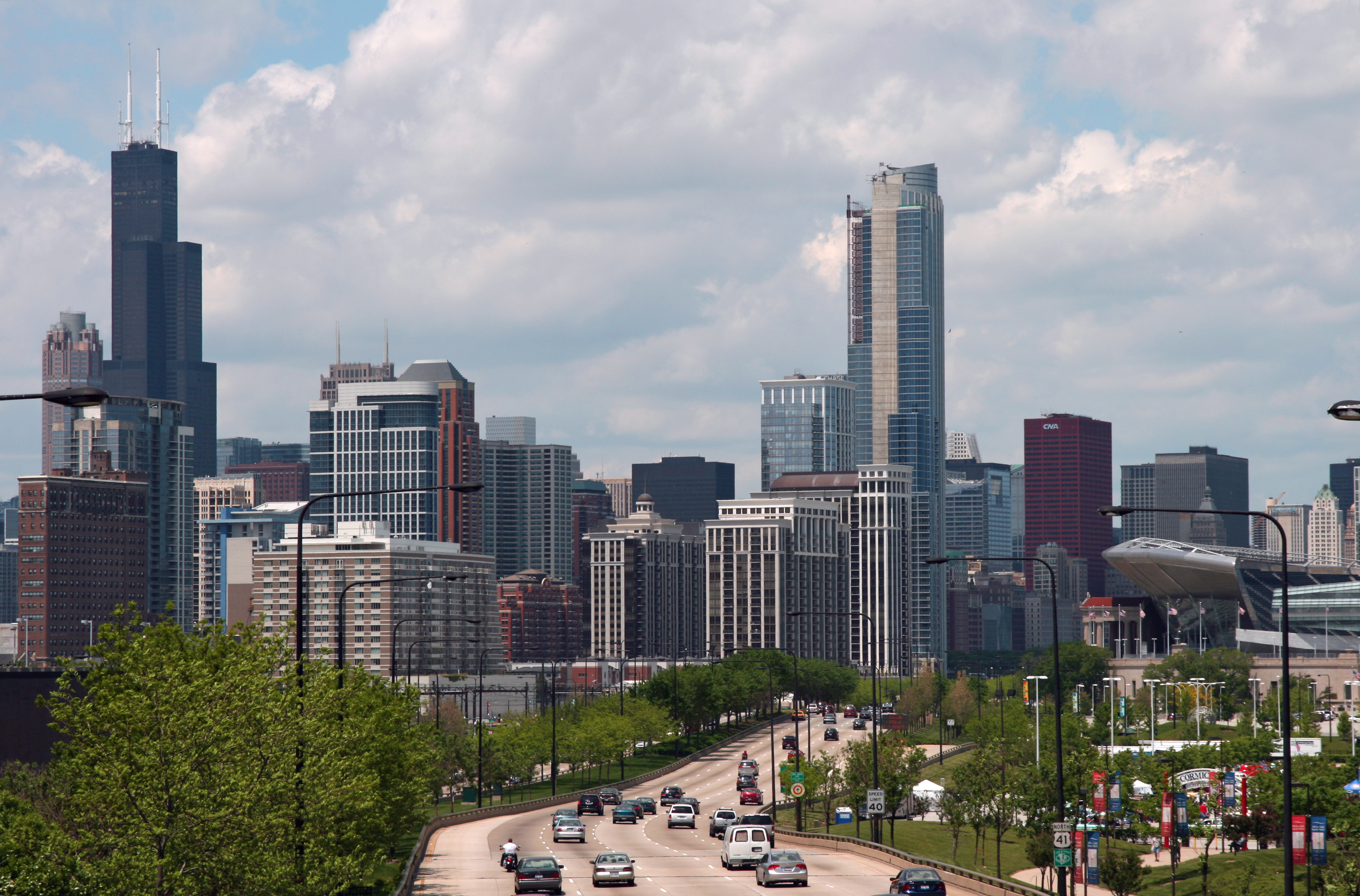 Chicago skyline